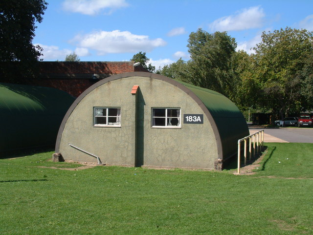 Nissen Hut, Duxford I think this is what they used to call a Nissen Hut in WWII. At Duxford Airfield.